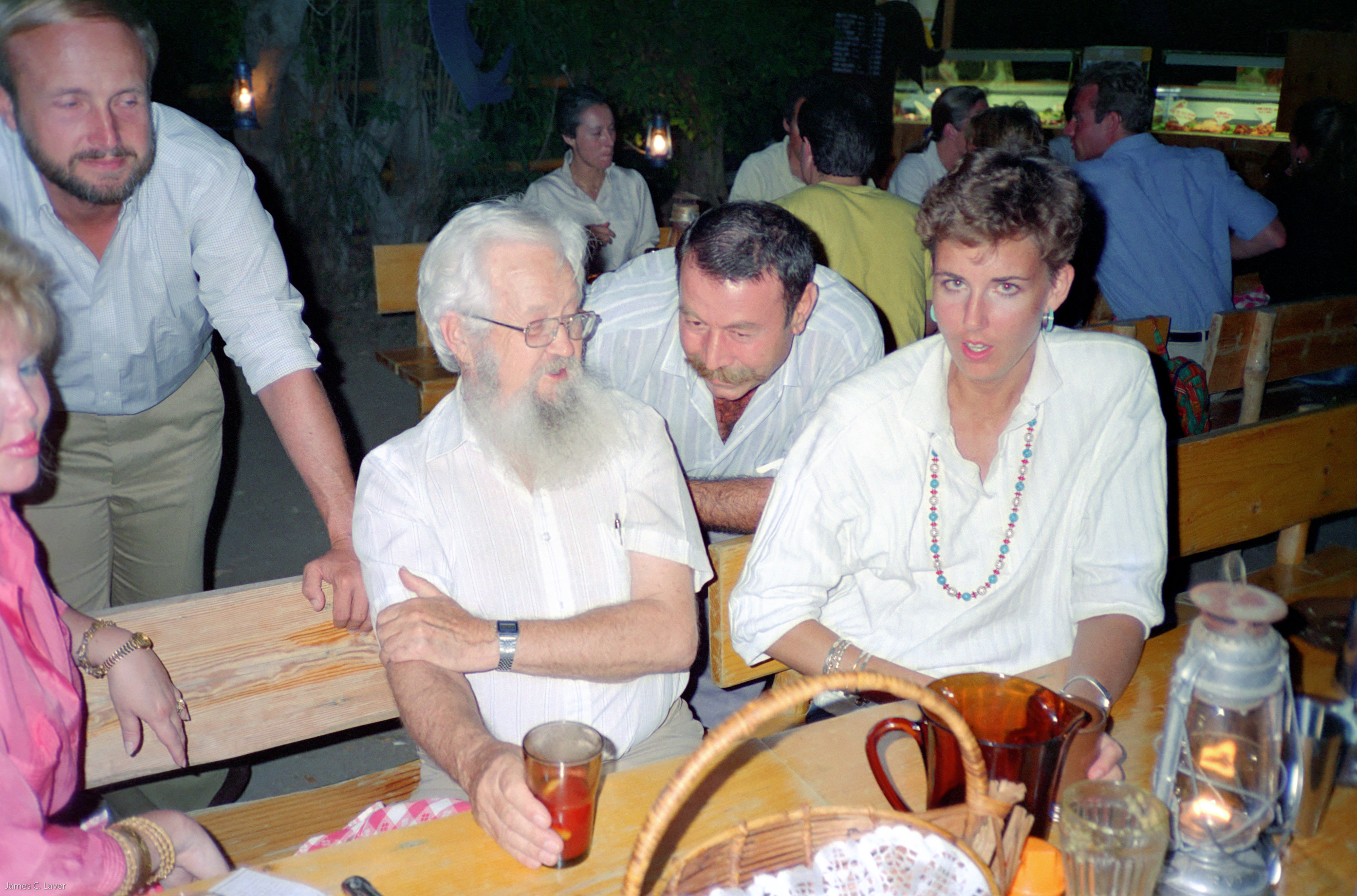 Don Davidson Jnr (far left), Cheryl Jones (far right) and other PAWR (Public Authority for Water Resources) expatriate staff. Hotel, Muscat, Oman.